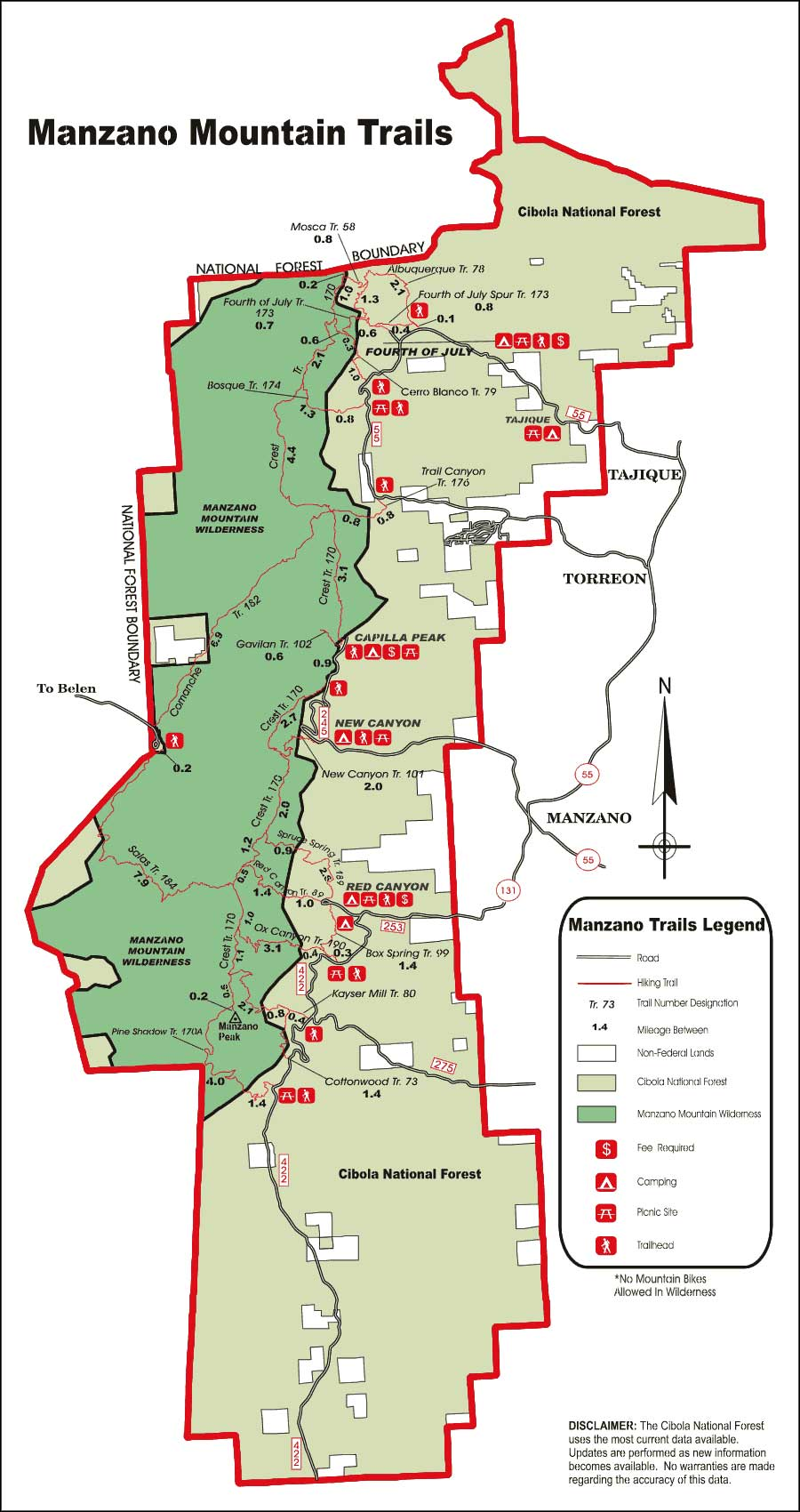 A map of the Manzano Wilderness and surrounding area in the Cibola National Forest.